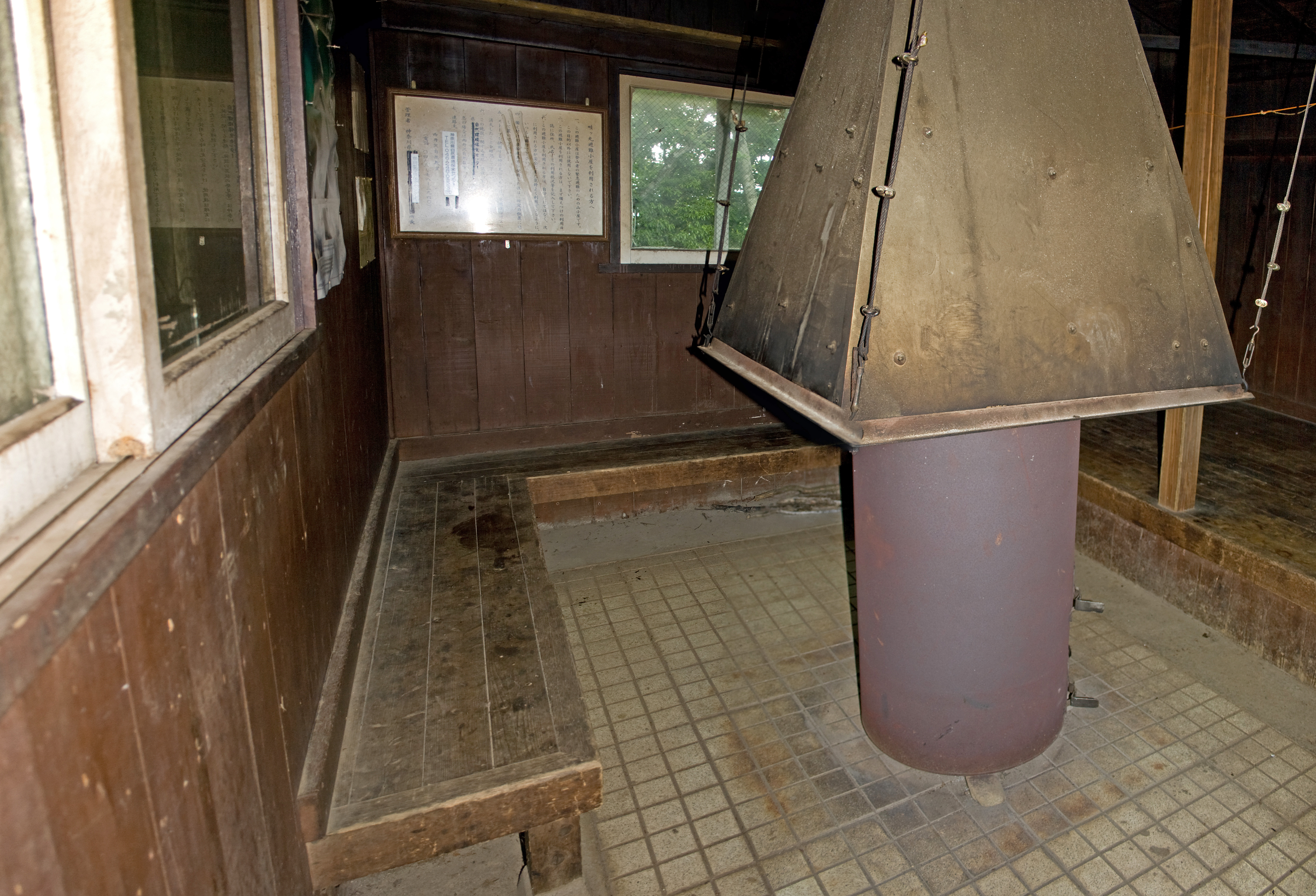 Azegamaru hinangoya ("Azegamaru shelter hut") in the Tanzawa Mountains, Japan